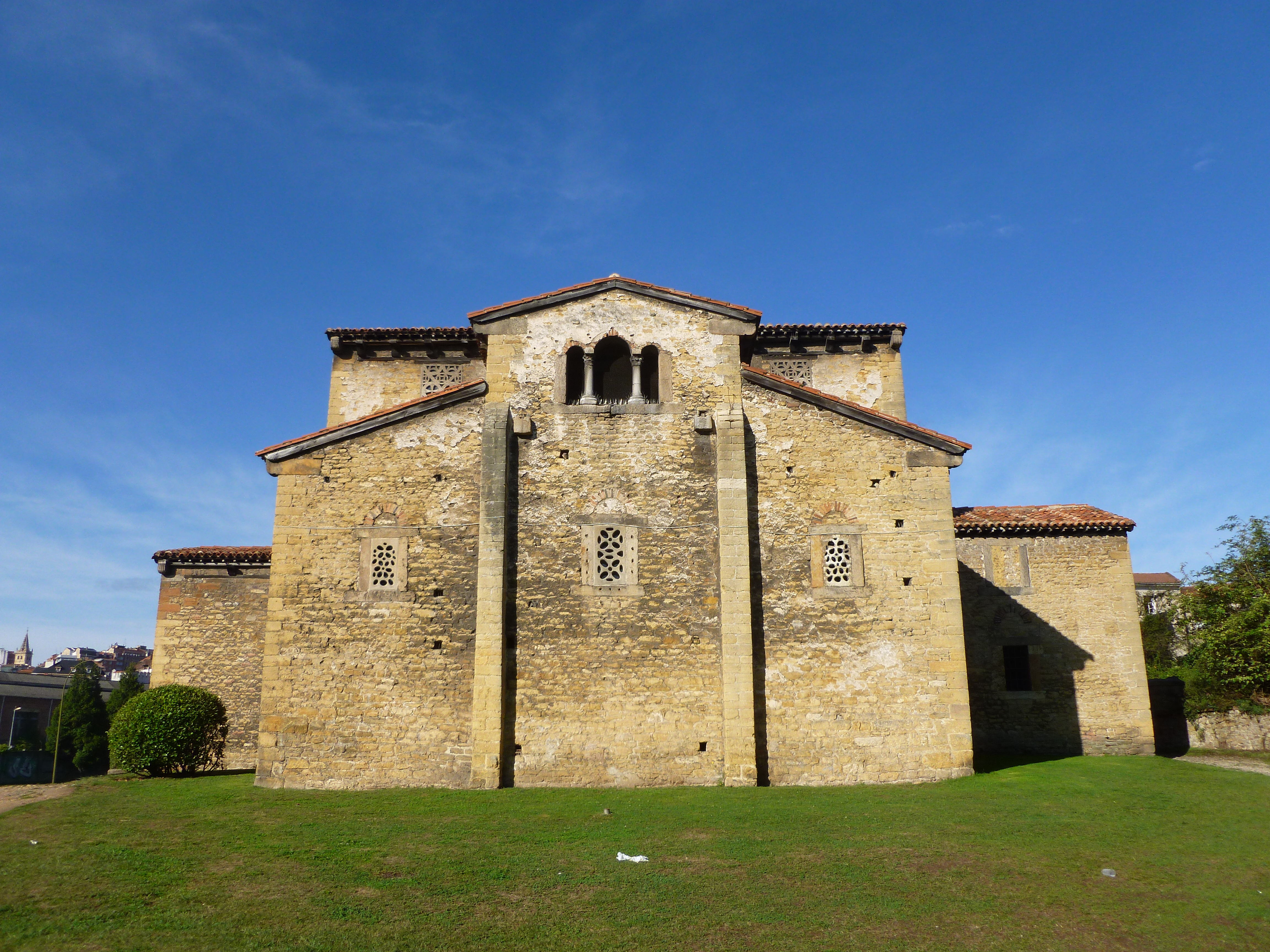 Church of San Julián de los Prados